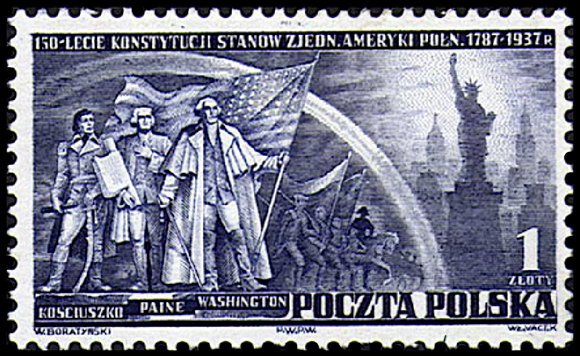 Postage stamp of Poland, 150th anniv. of US Constitution, 1 zloty, 1938